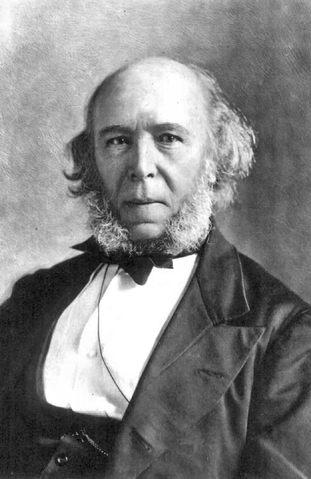 Herbert Spencer (27 April 1820 - 8 December 1903) was an English philosopher. Creator Unidentified photographer Medium Medium unknown Dimensions 20.4 cm x 14.6 cm Date Prior to 1903 Contained in Scientific Identity: Portraits from the Dibner Library of the History of Science and Technology Image ID SIL14-S005-09 Keywords science, biology, physics, scientist, Physicist, biologist, Henry Morton Stanley